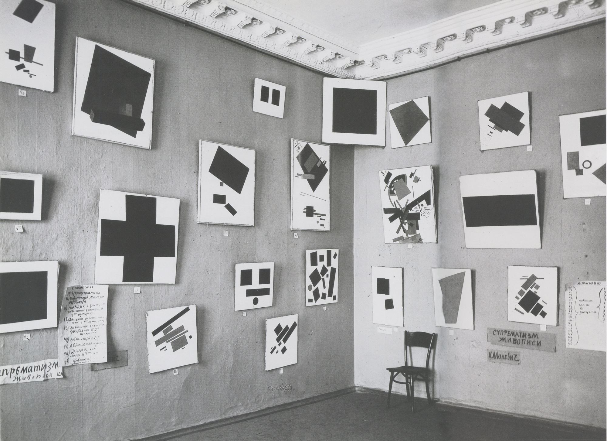 0,10 Exhibition: A section of Suprematist works by Kazimir Malevich exhibited for the first time